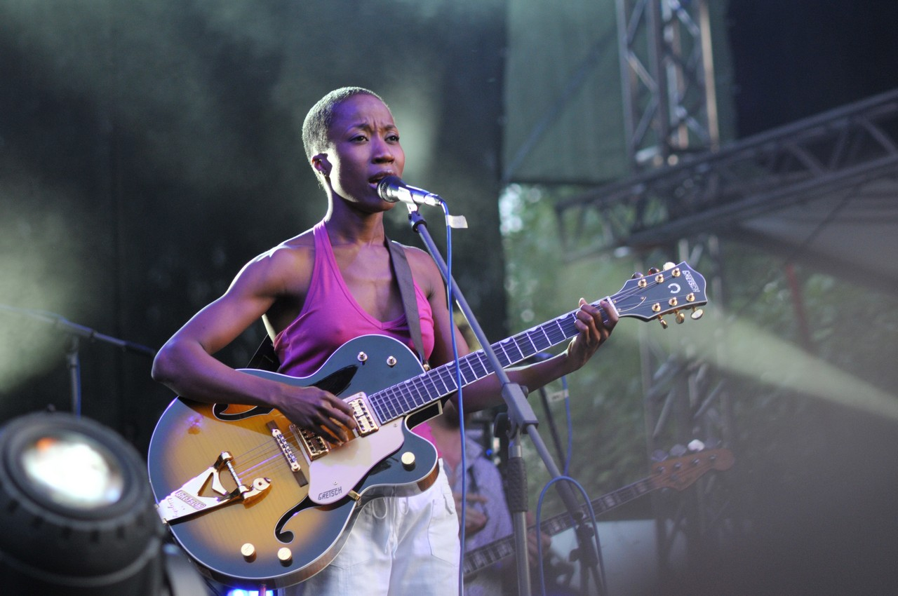 Rokia Traoré playing a guitar.